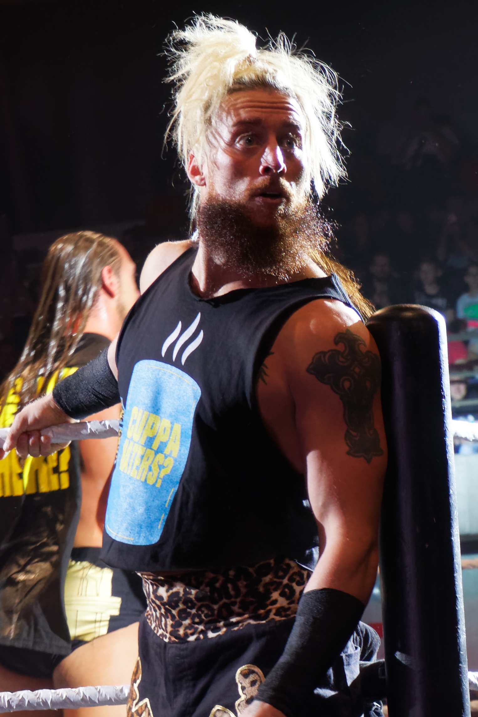 Enzo Amore at WWE Raw event in May 2017